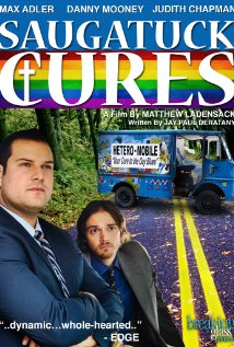 Official DVD Release Poster